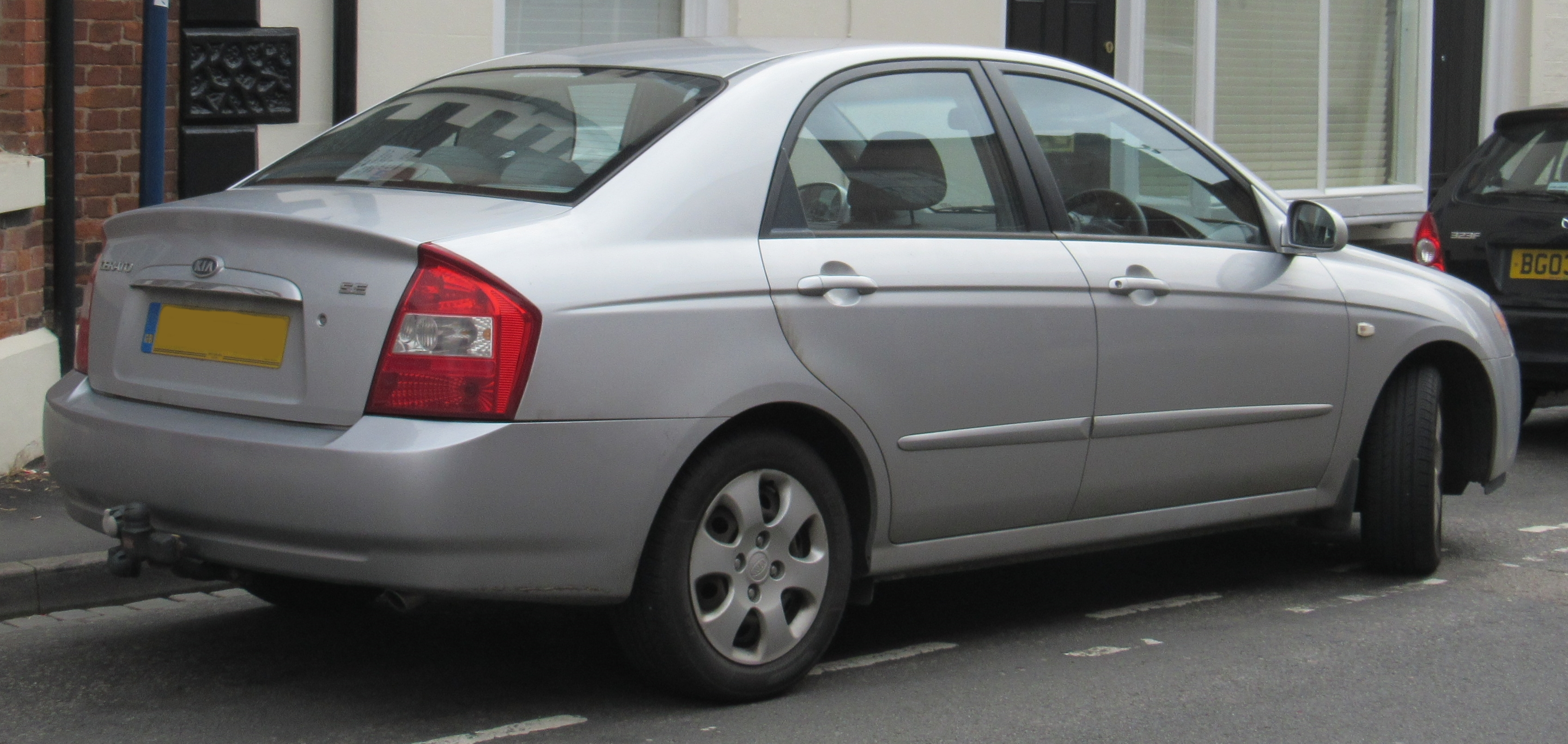 2005 Kia Cerato SE 2.0 Rear Taken in Warwick